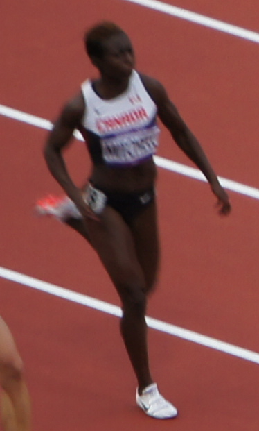 London 2012 Olympics Athletics